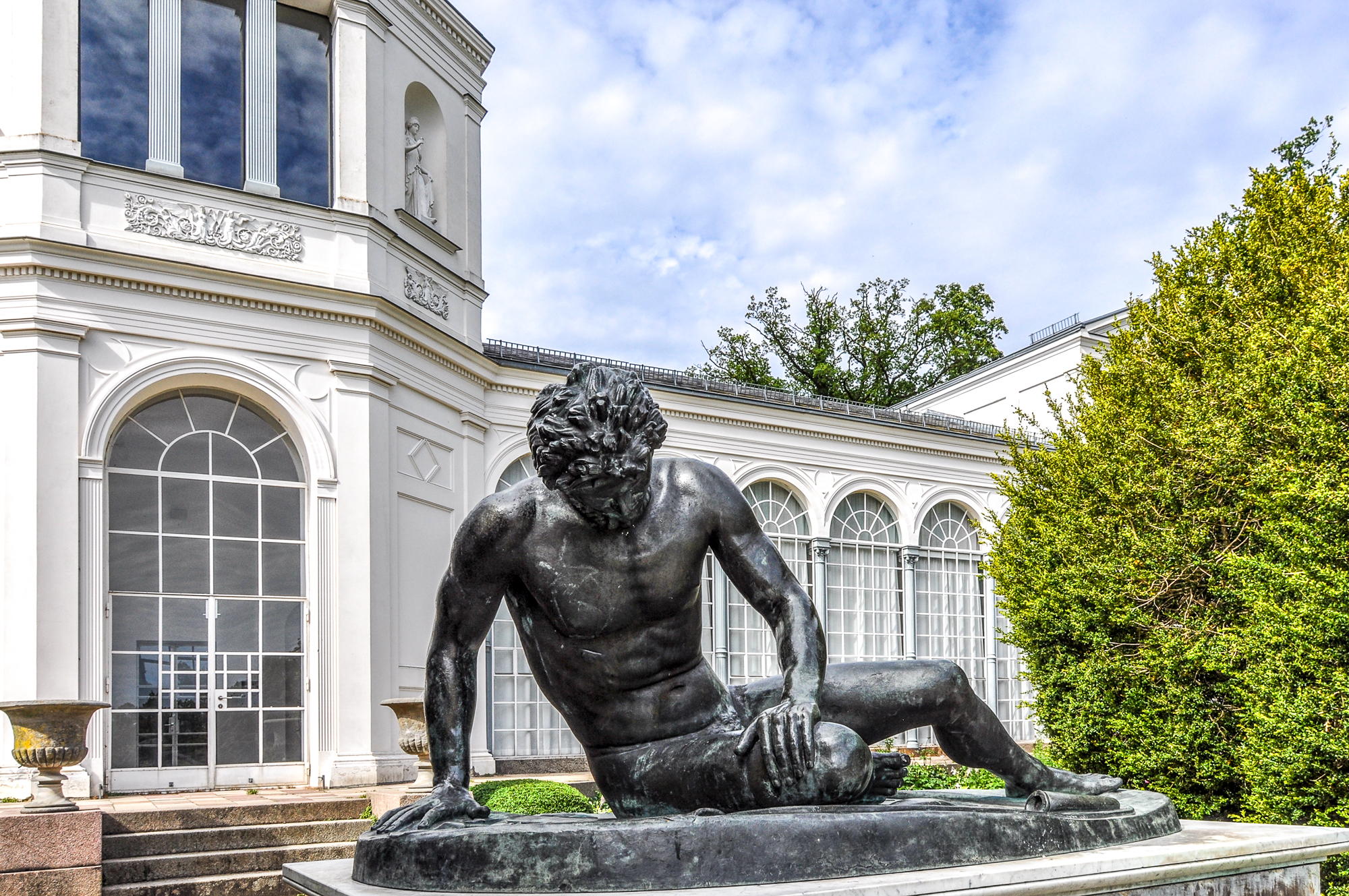 A bronze version of the often copied sculpture of "Dying Gaul" , placed on the garden side of the orangery at Putbus.